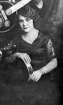 Smyrna style rebetiko trio: Dimitris „Salonikios“ Semsis, Agapios Tomboulis, Rosa Eskenazi (Athens 1932)